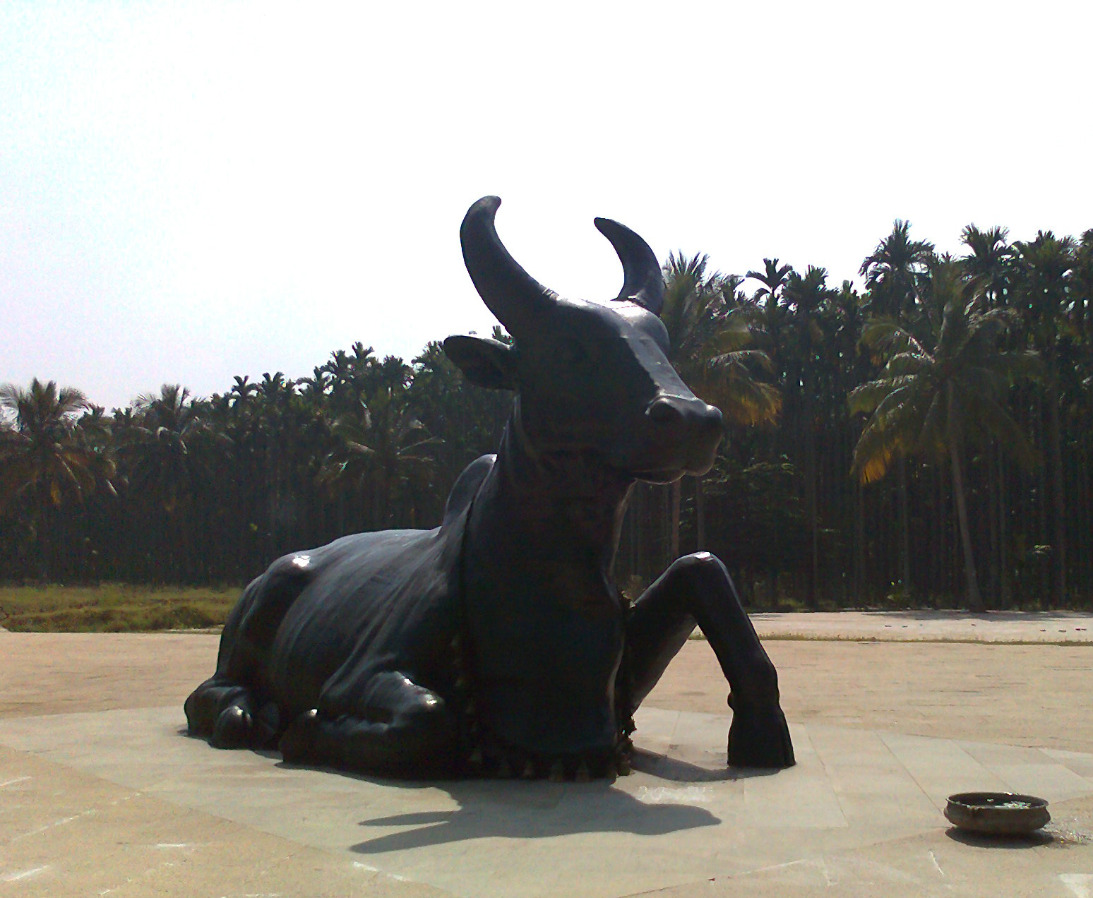 The Nandi sculpture at the Isha Yoga Center, Coimbatore, India.